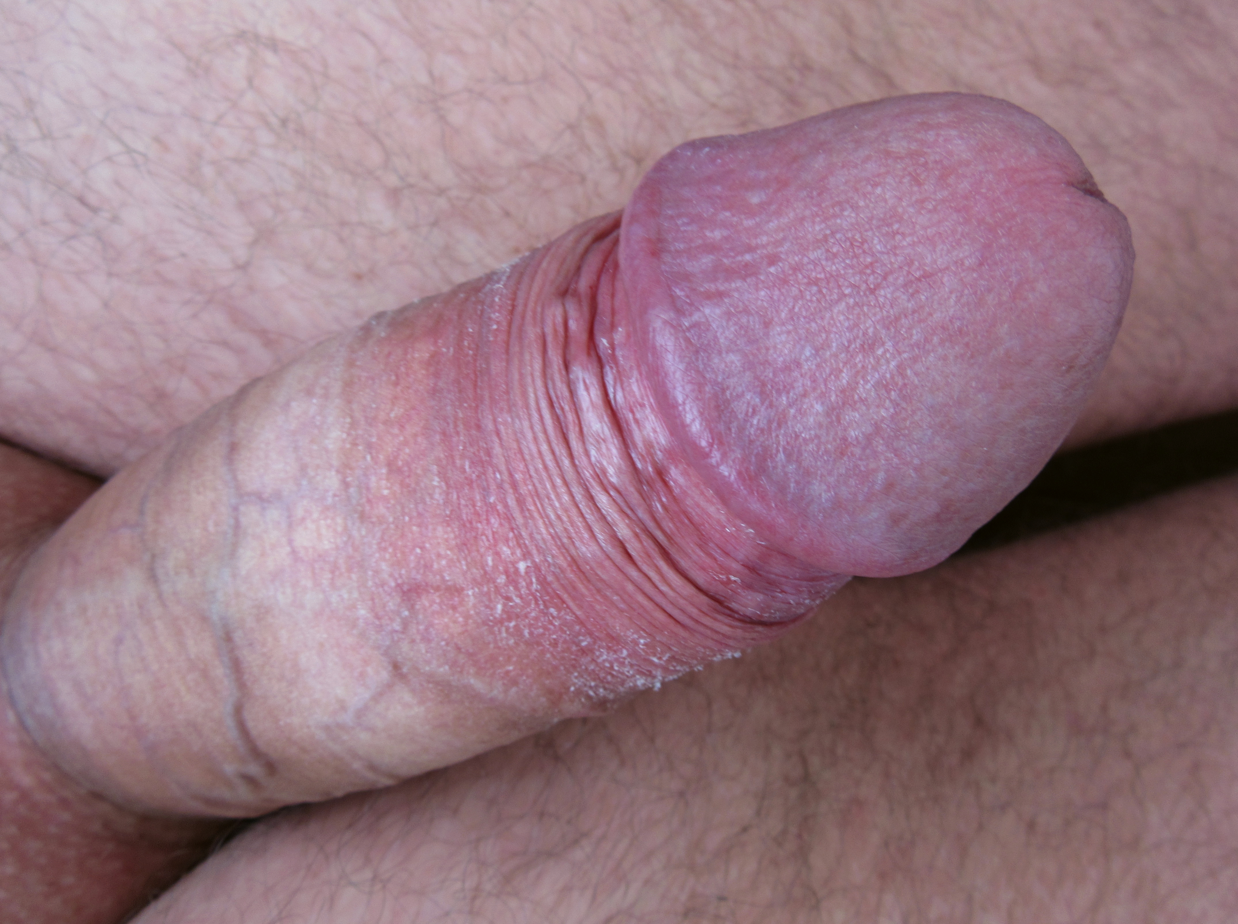 Posthitis , inflammation of the foreskin (prepuce) of the human penis caused by a bacterial or fungal infection